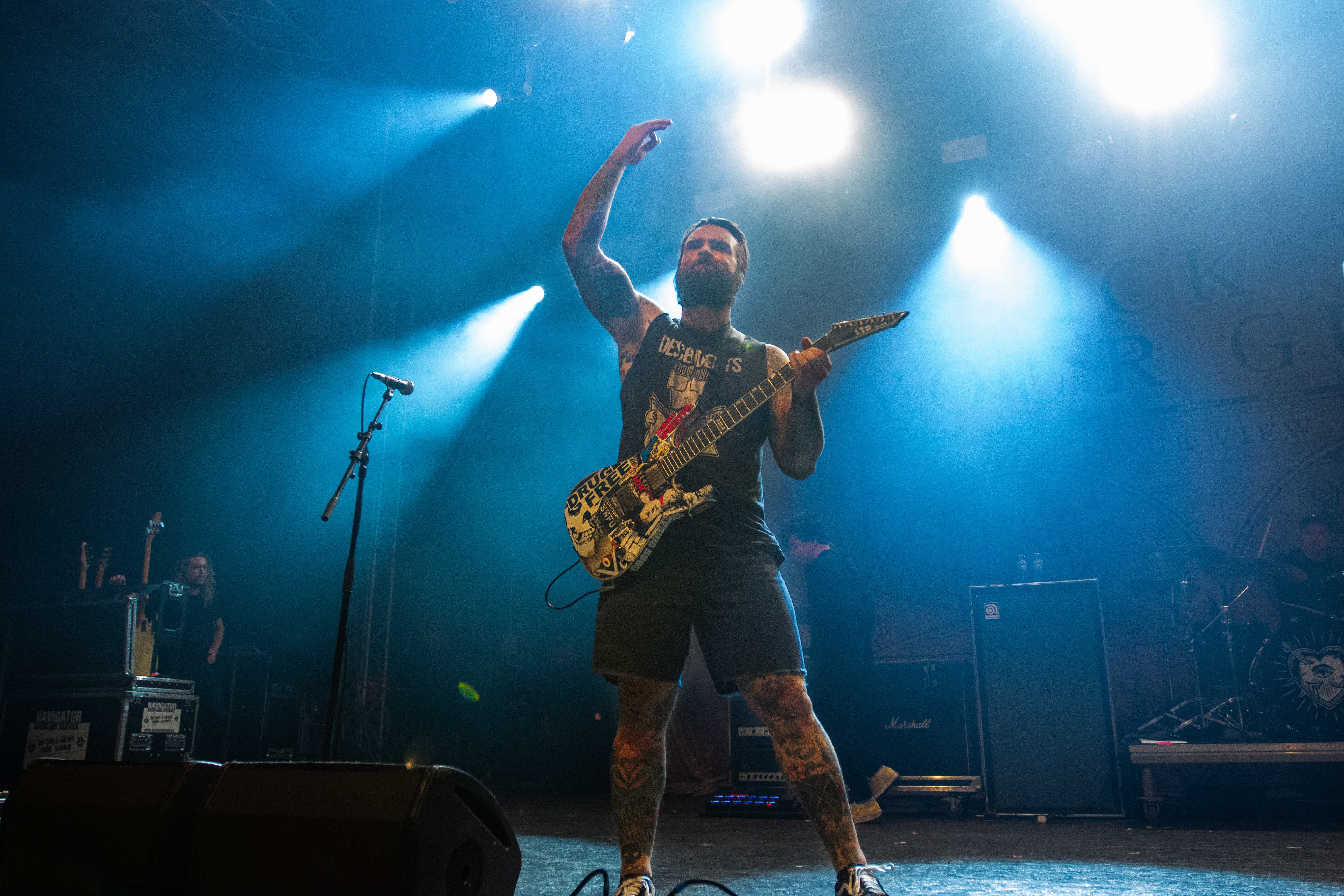 US metalcore group Stick To Your Guns during a show at Impericon Festival (2019), Turbinenhalle, Oberhausen (DEU) /// leokreissig.de for Wikimedia Commons